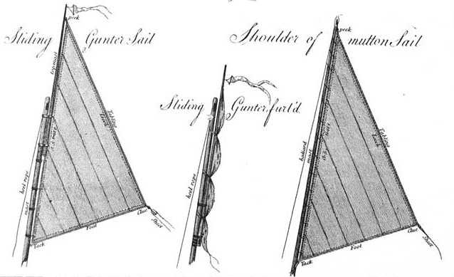 Sliding Gunter Sail